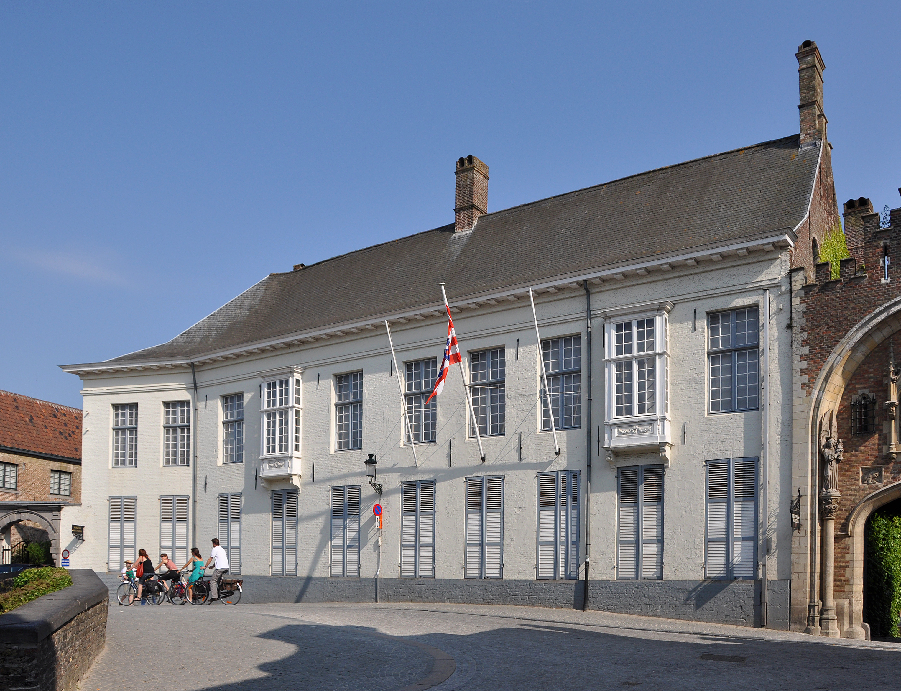 Bruges (Belgium): Arentshuid (museum)